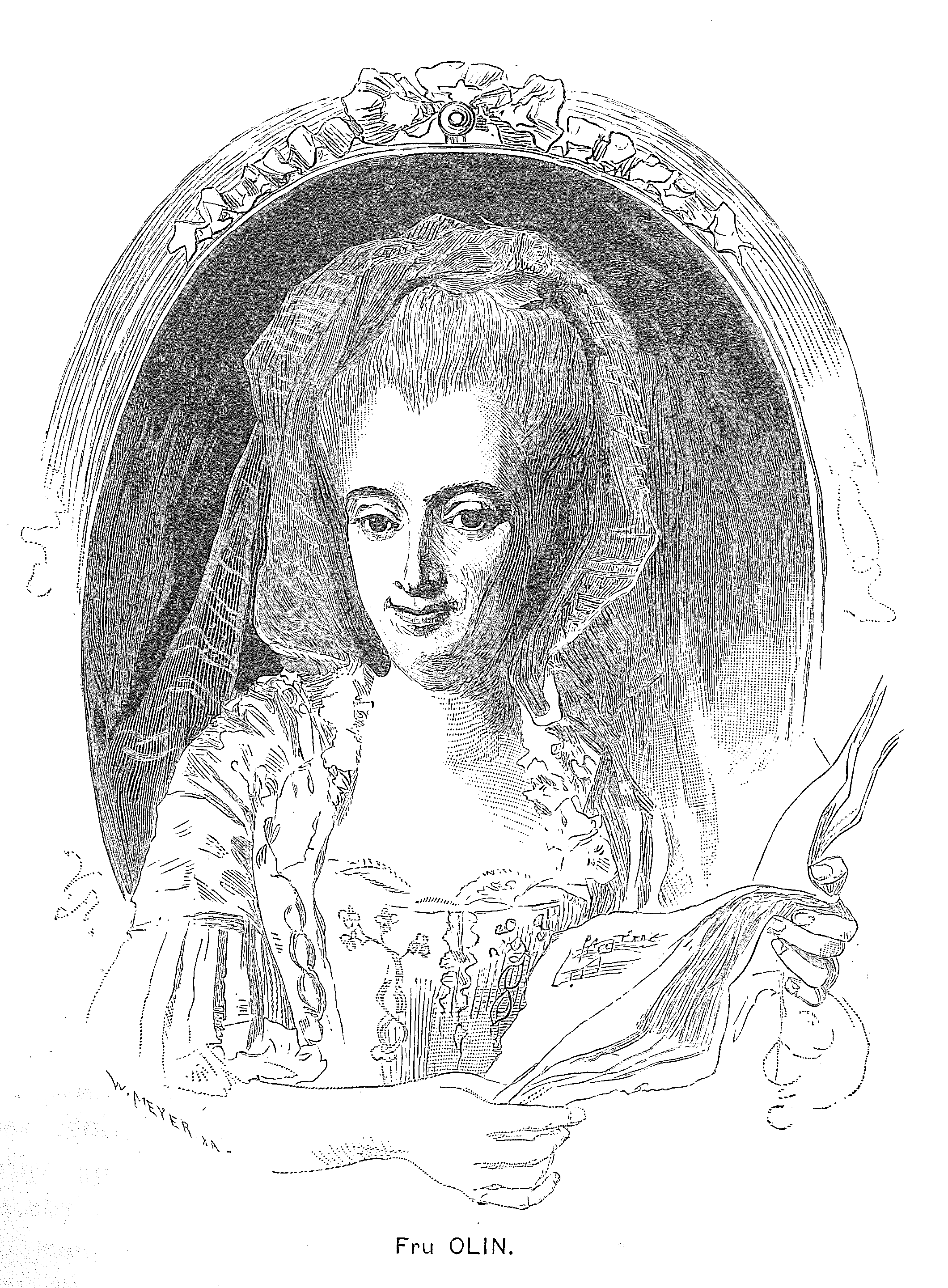 Picture of Swedish opera singer Elisabeth Olin from the book "Svenska operasångare" by Frans Hedberg.